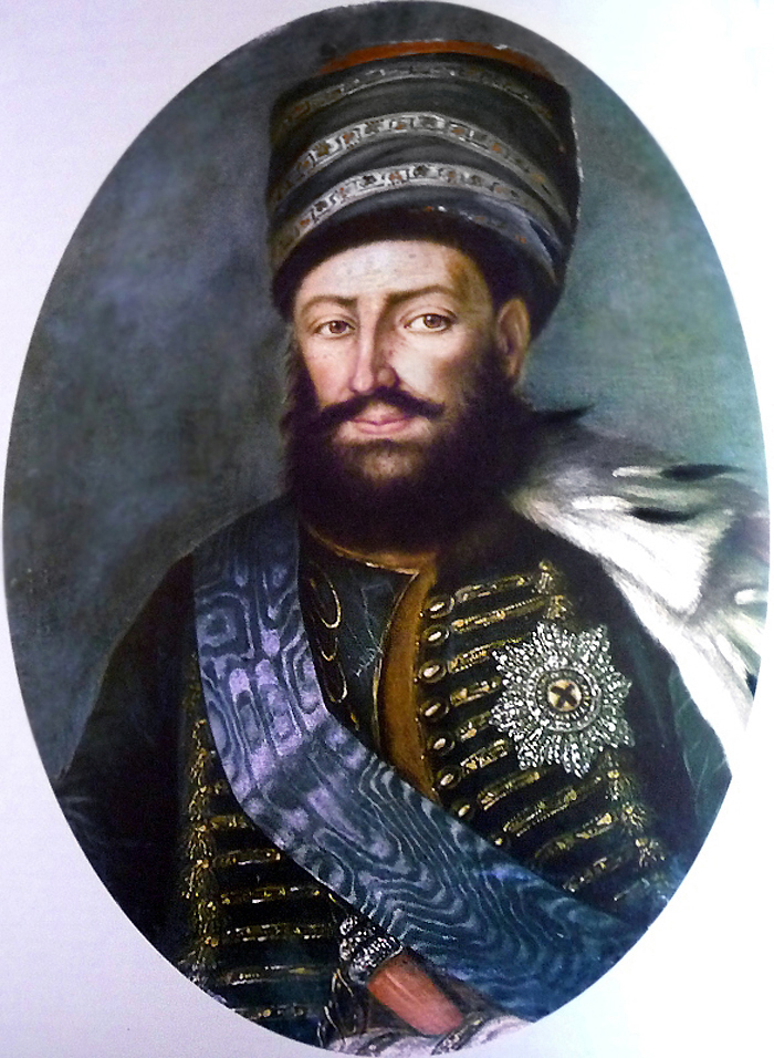 Heraclius II of Eastern Georgia (r. 1720-1798)